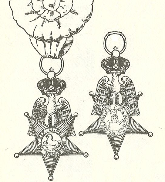 Star of the Order of the Two Sicilies